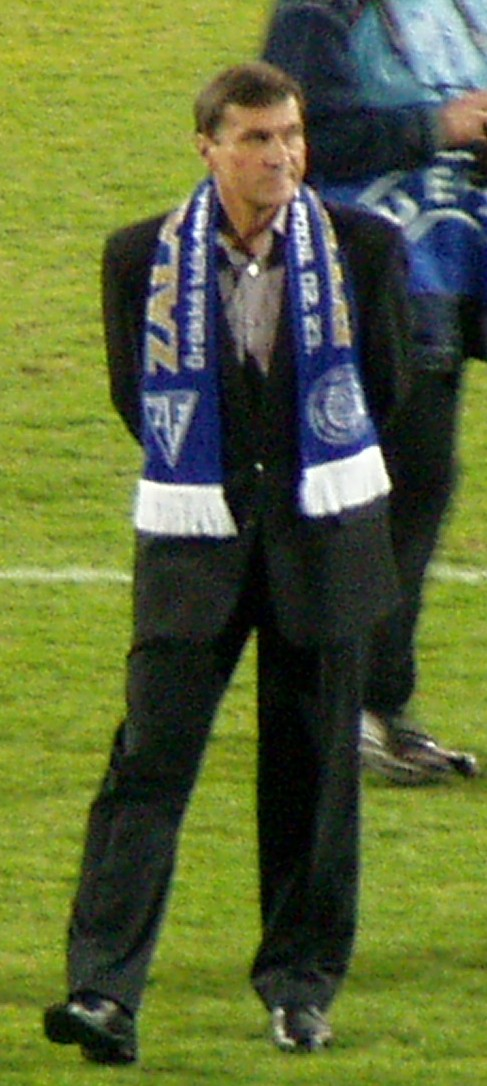 István Soós association football player.